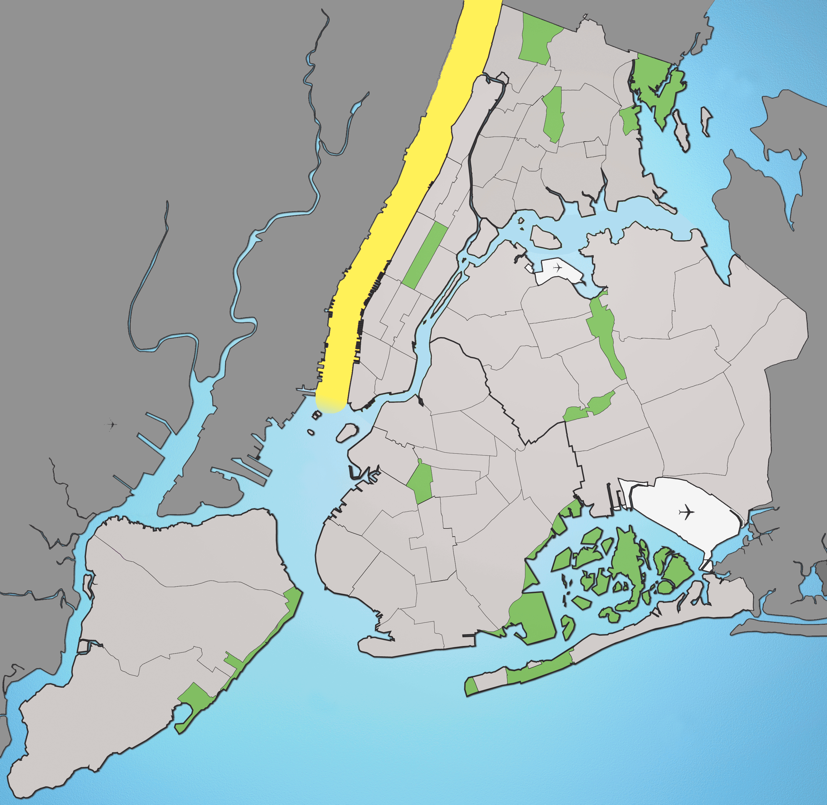 The Hudson and East Rivers in NYC.